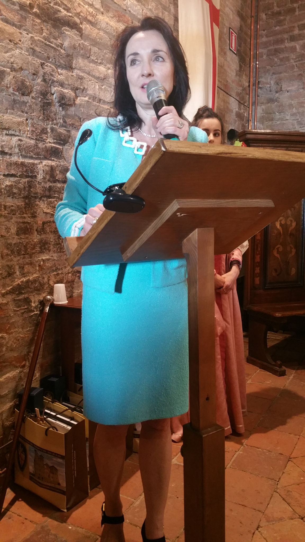 Kerin O'Keefe speaking at Castello di Grinzane Cavour to the Ordine dei Cavalieri del Tartufo e dei Vini di Alba